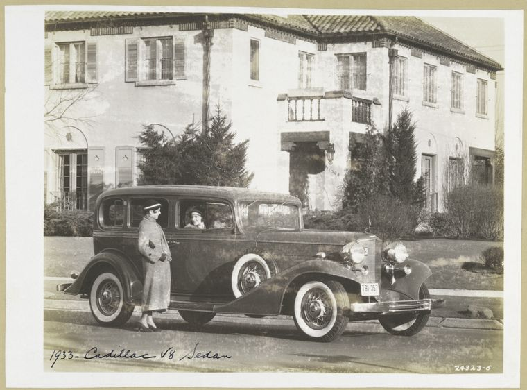 Cadillac 1933 Series 355-C Five-Passenger Sedan V-8 Digital ID: 482020 Source: Photographs of General Motors and Chrysler car and truck models, 1902 - 1938. / 1902-1938. Cadillac - Chrysler - De Soto - Dodge - LaSalle - Plymouth. Photographs - Specifications. ( more info ) Repository: The New York Public Library. Science, Industry and Business Library. General Collection Division. See more information about this image and others at NYPL Digital Gallery . Persistent URL: Rights Info: No known copyright restrictions; may be subject to third party rights (for more information, click here )